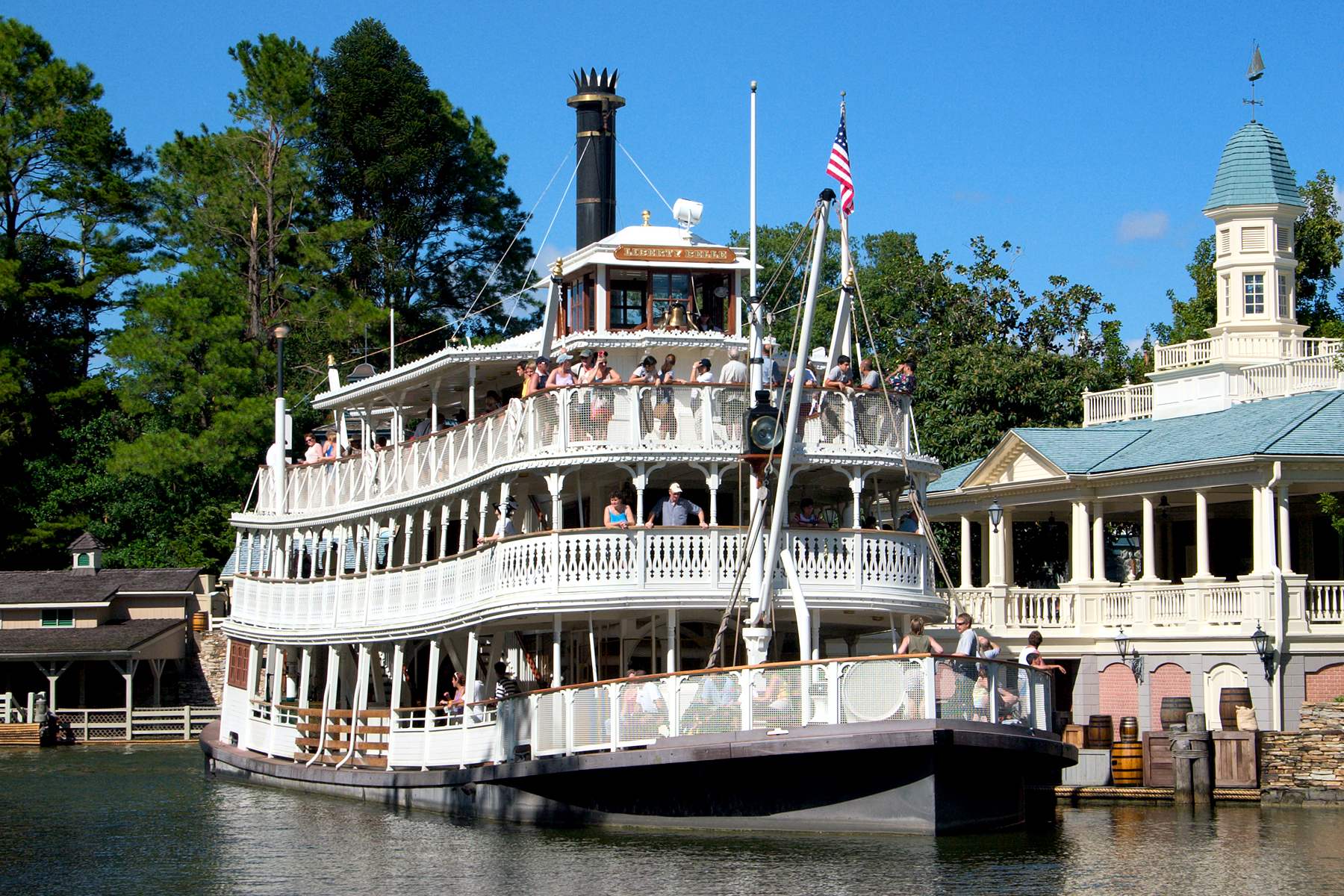 The Liberty Belle Riverboat at Disney's Magic Kingdom, Orlando, Florida.